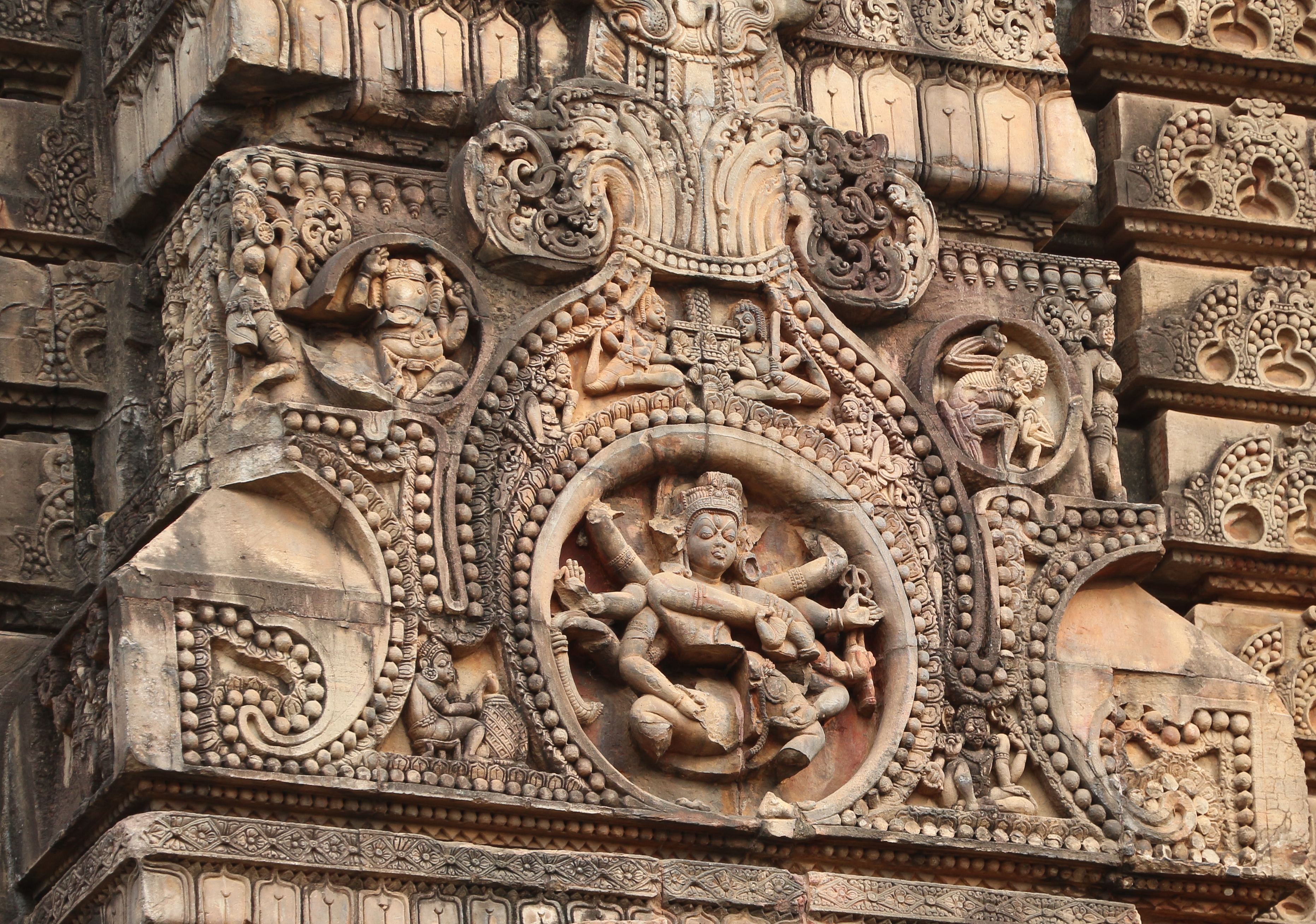 Sculptures on Parasuramesvara Temple, Bhubaneswar, India